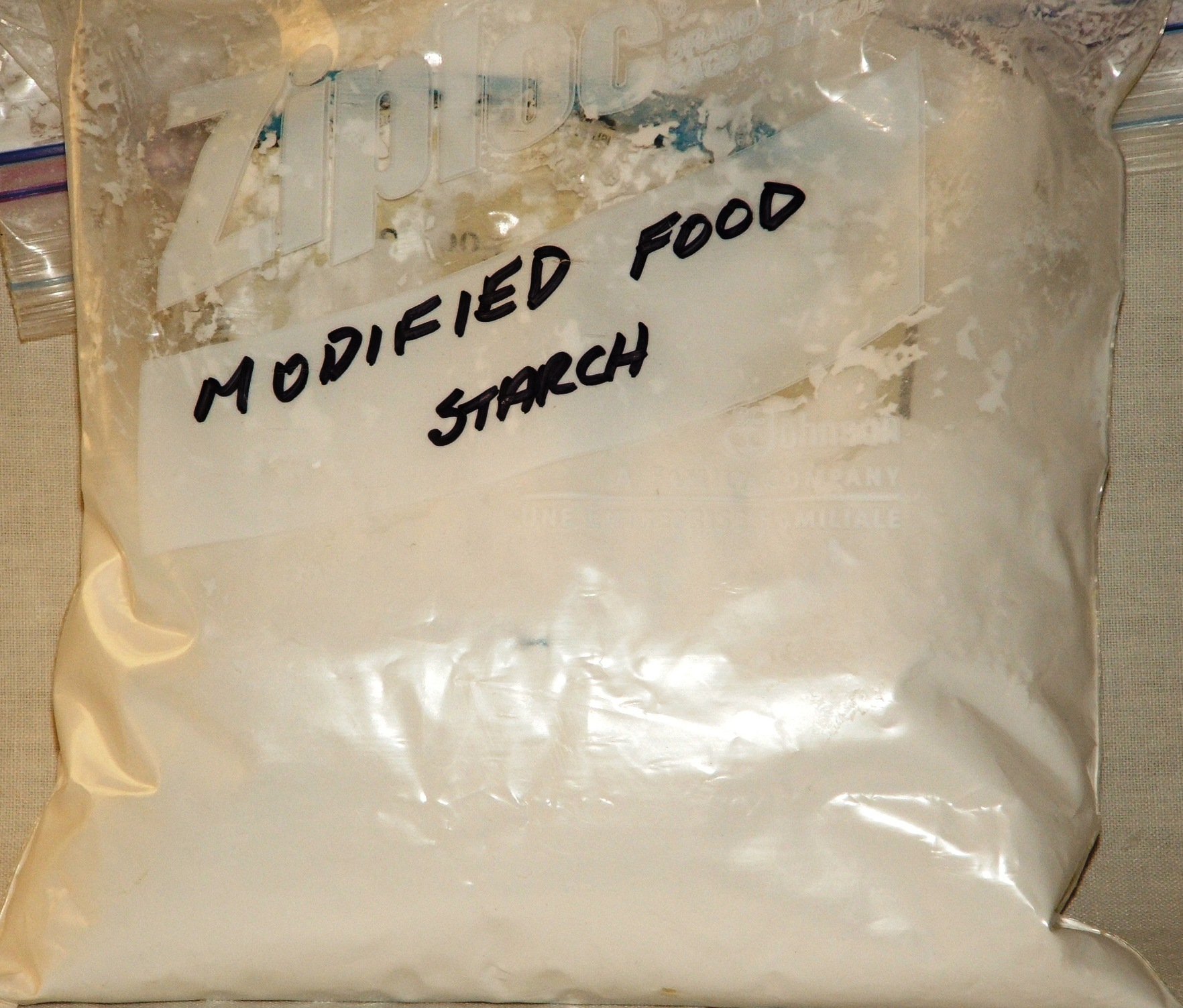 Modified food starch - a food additive which is prepared by treating starch or starch granules, causing the starch to be partially degraded. Modified starch is used as a thickening agent.